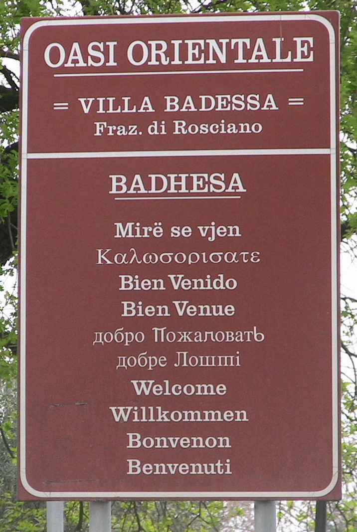 Villa Badessa - Welcome road sign